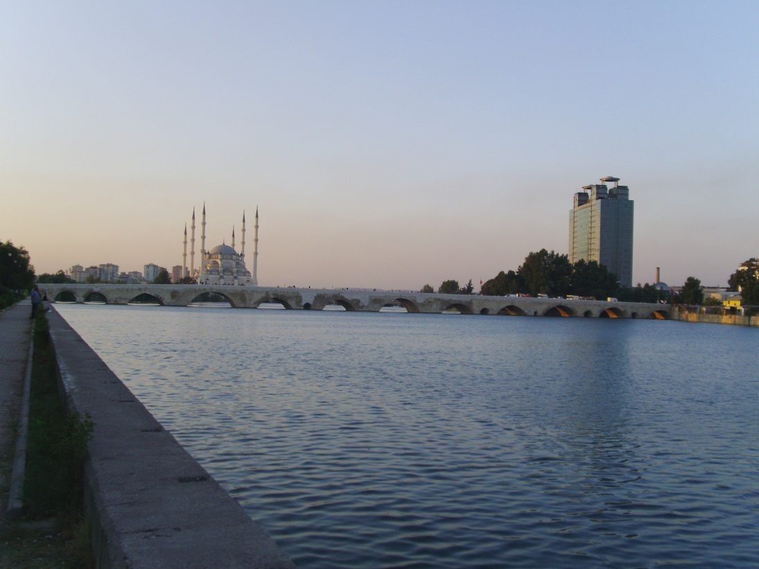 Adana river view